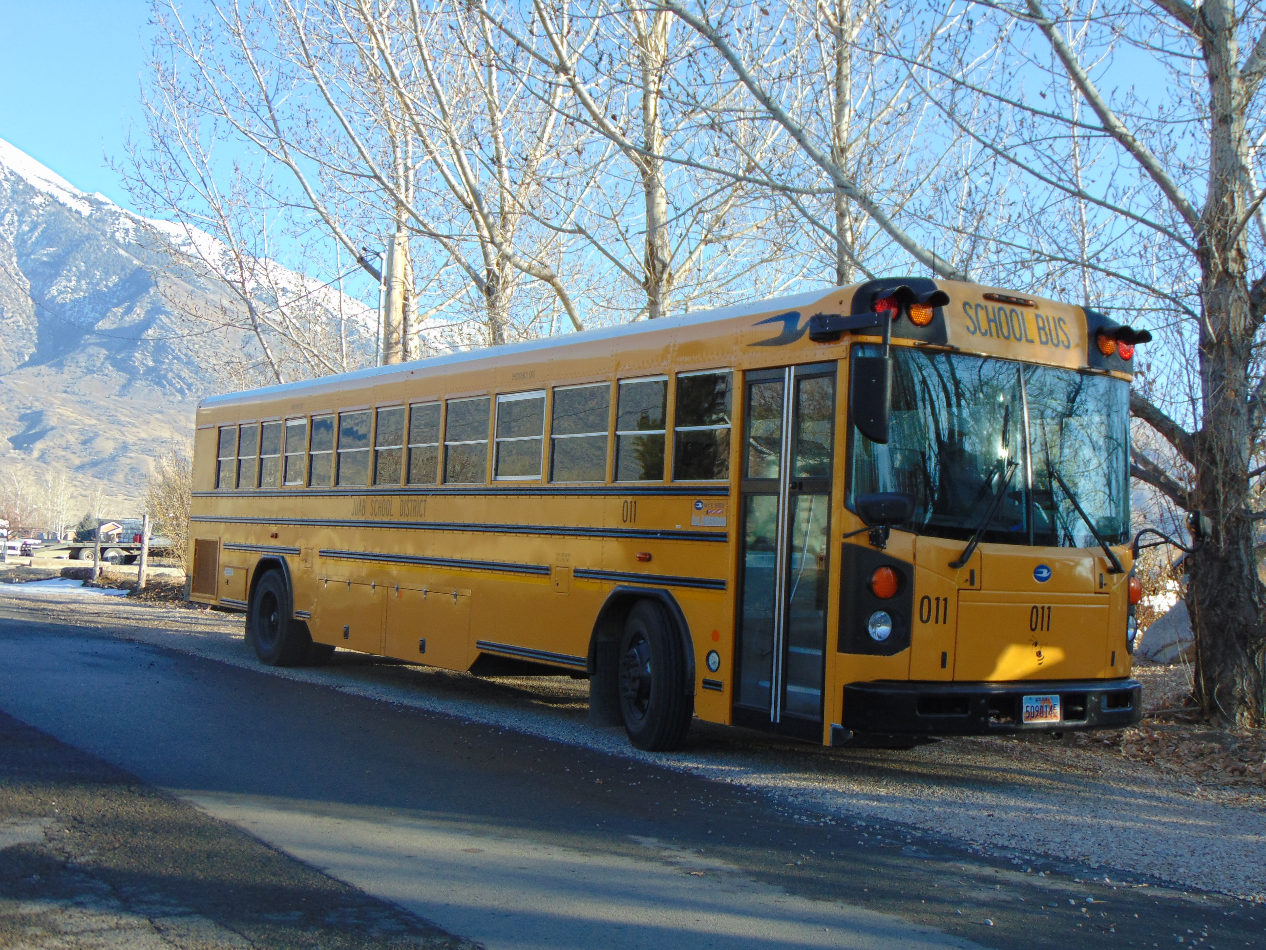 A typical Juab School District school bus (Utah), January 2018